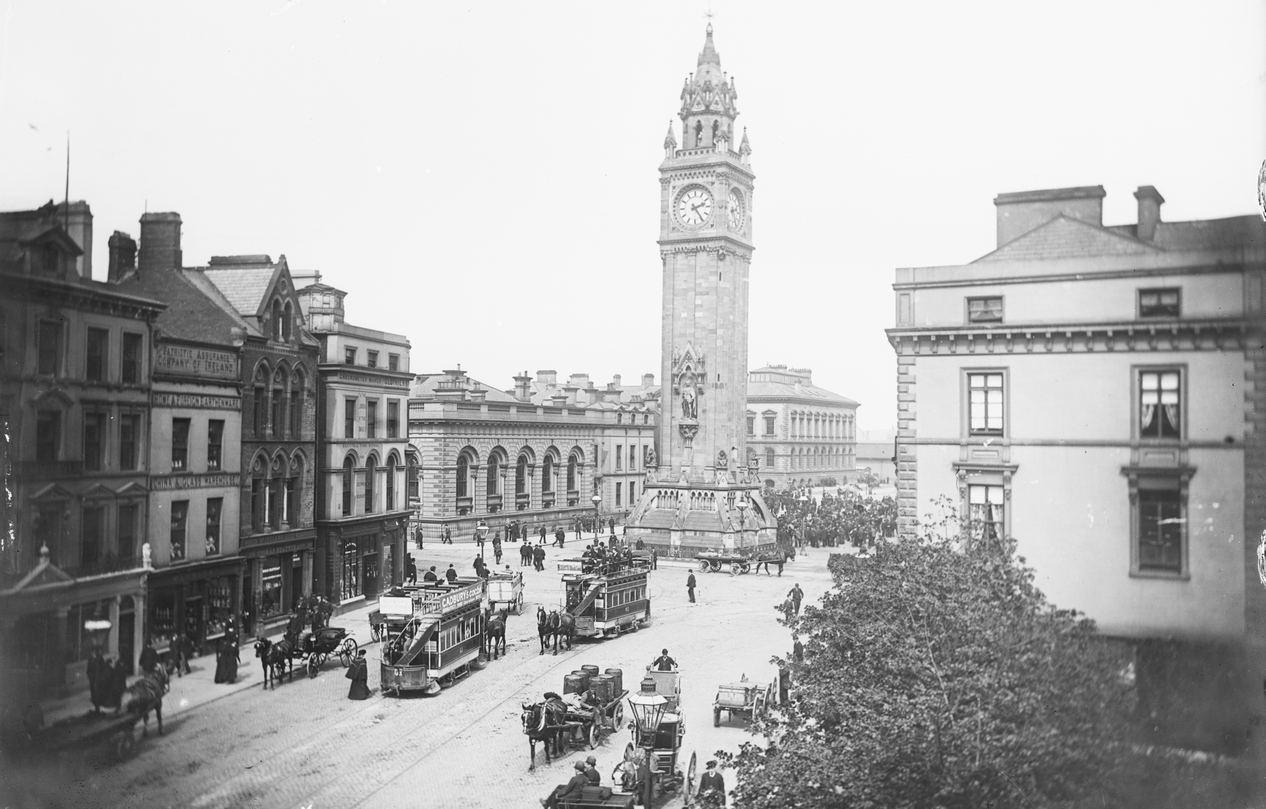 Archetypal Robert French/Lawrence Collection street scene of the Albert Memorial in Belfast, complete with horse-drawn trams. I hope that you'll enjoy it for itself and its many charms, but I'm uploading it because its companion photo seems to be an example of "photoshopping" (apologies for anachronism)... Photographer: Robert French of Lawrence Photographic Studios, Dublin Date: Between 1872 (horse trams) and 1905 (electrified trams) NLI Ref.: L_NS_02560 P.S. Managed to Flickr Mail some of you with this big KLAXON! but just wanted to let you all know that this will be my last week at the wheel of this crazy, fun, informative Flickr stream. I hope you'll all enjoy this week's photos...